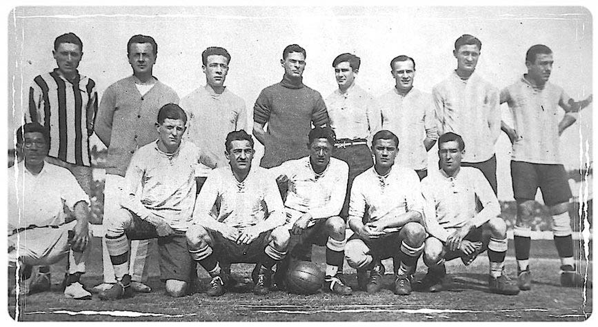 An Argentina national football team lineup. Players were: (up): Segundo Médici, Américo Tesoriere, Mario Fortunato, Emilio Solari, Florindo Bearzotti, Adolfo Celli. (down): Domingo Tarasconi, Ernesto Celli, Gabino Sosa, Manuel Seoane, Cesáreo Onzari.